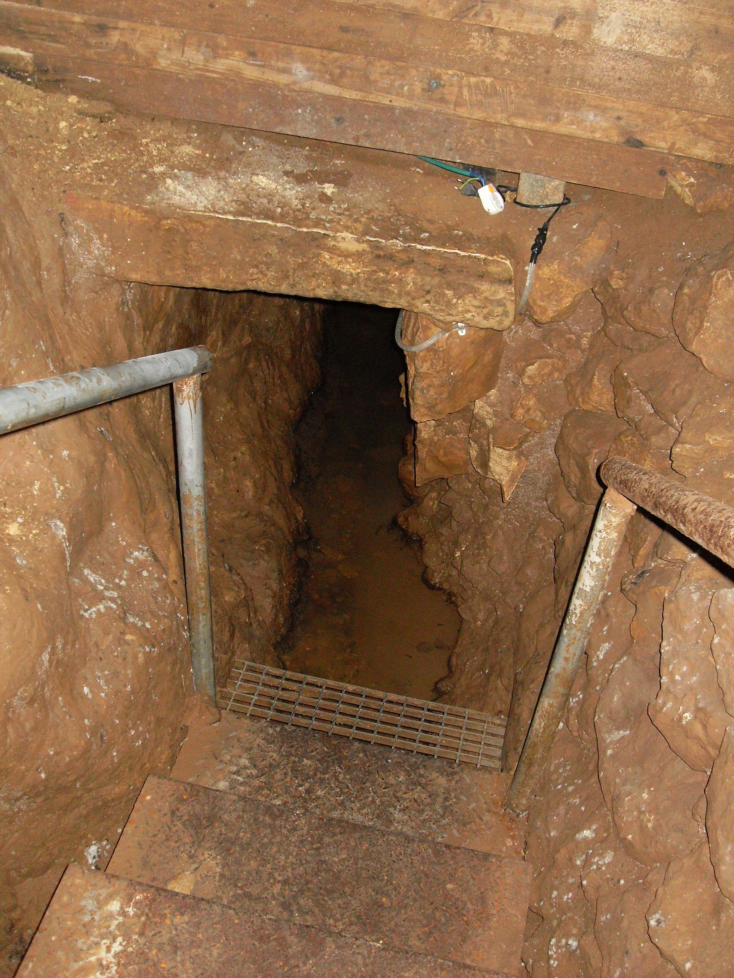 well's aqueduct (Amat haBiar) in the Gush Etzion, near Efrat